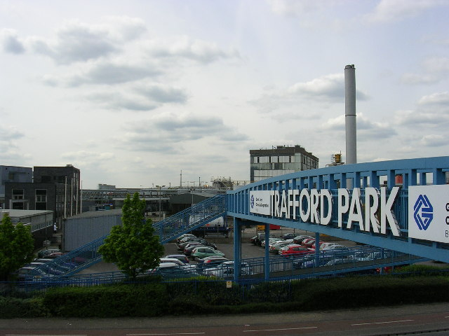 Trafford Park, Manchester The World's first planned industrial estate and, in its heyday, Europe's biggest. SJ785972.